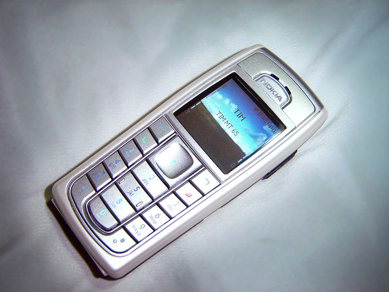 Nokia 6230. Posted on Flickr by user jeffbelmonte on June 9, 2005